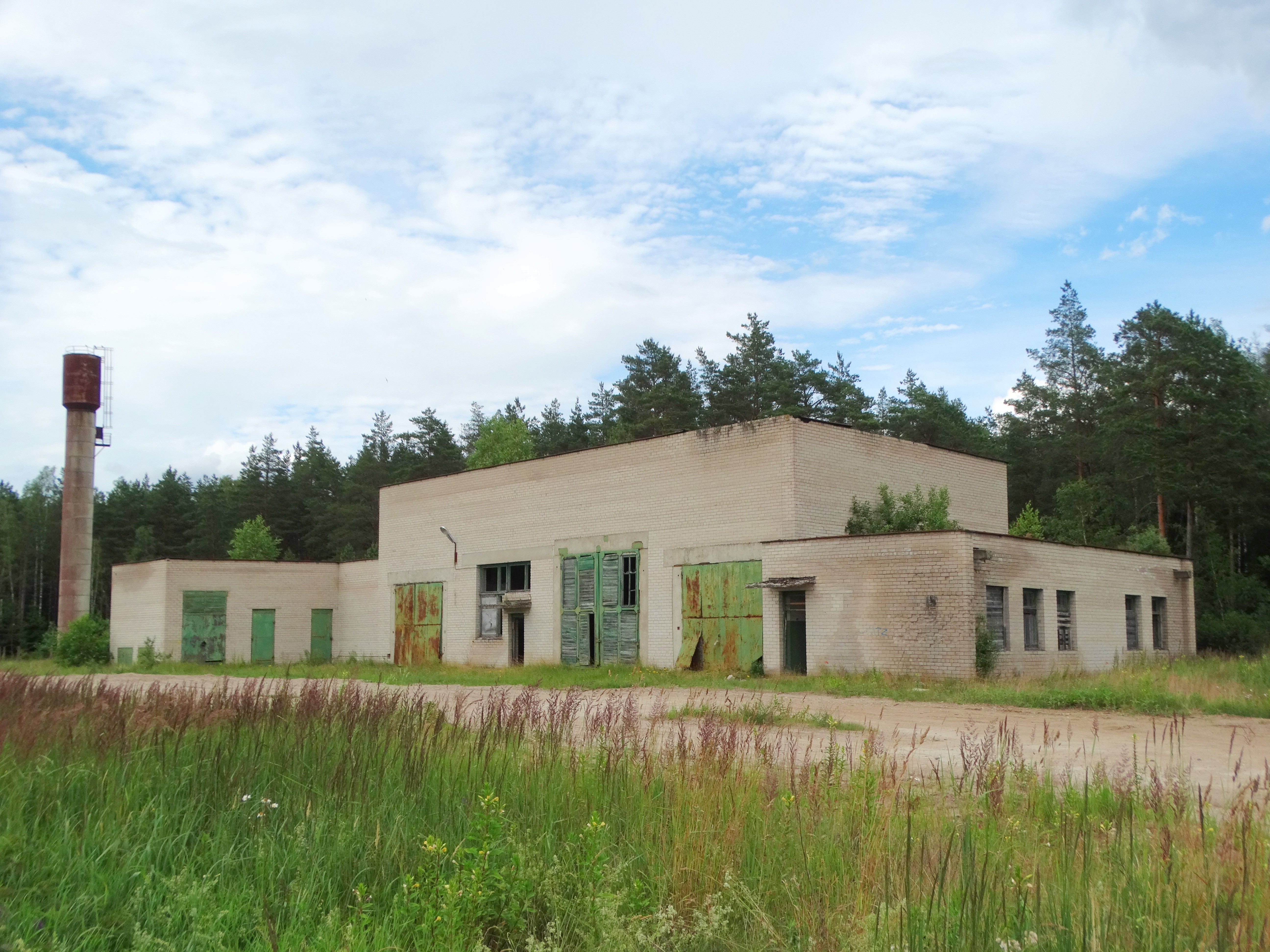 Juodbaliai Quarry, abandoned industrial buildings, Anykščiai District, Lithuania